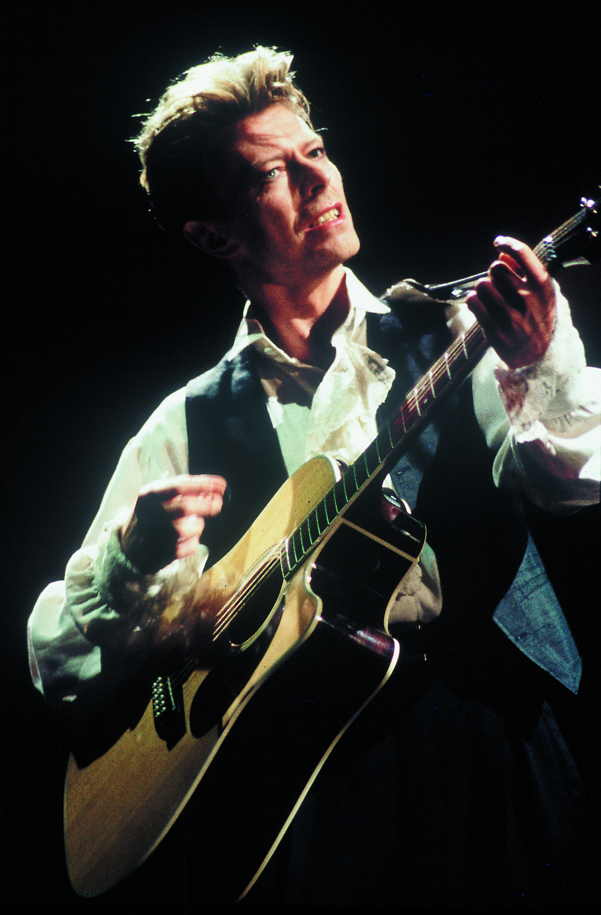 David Bowie - Sound and Vision Tour - 5th September 1990 - Zagreb, Croatia